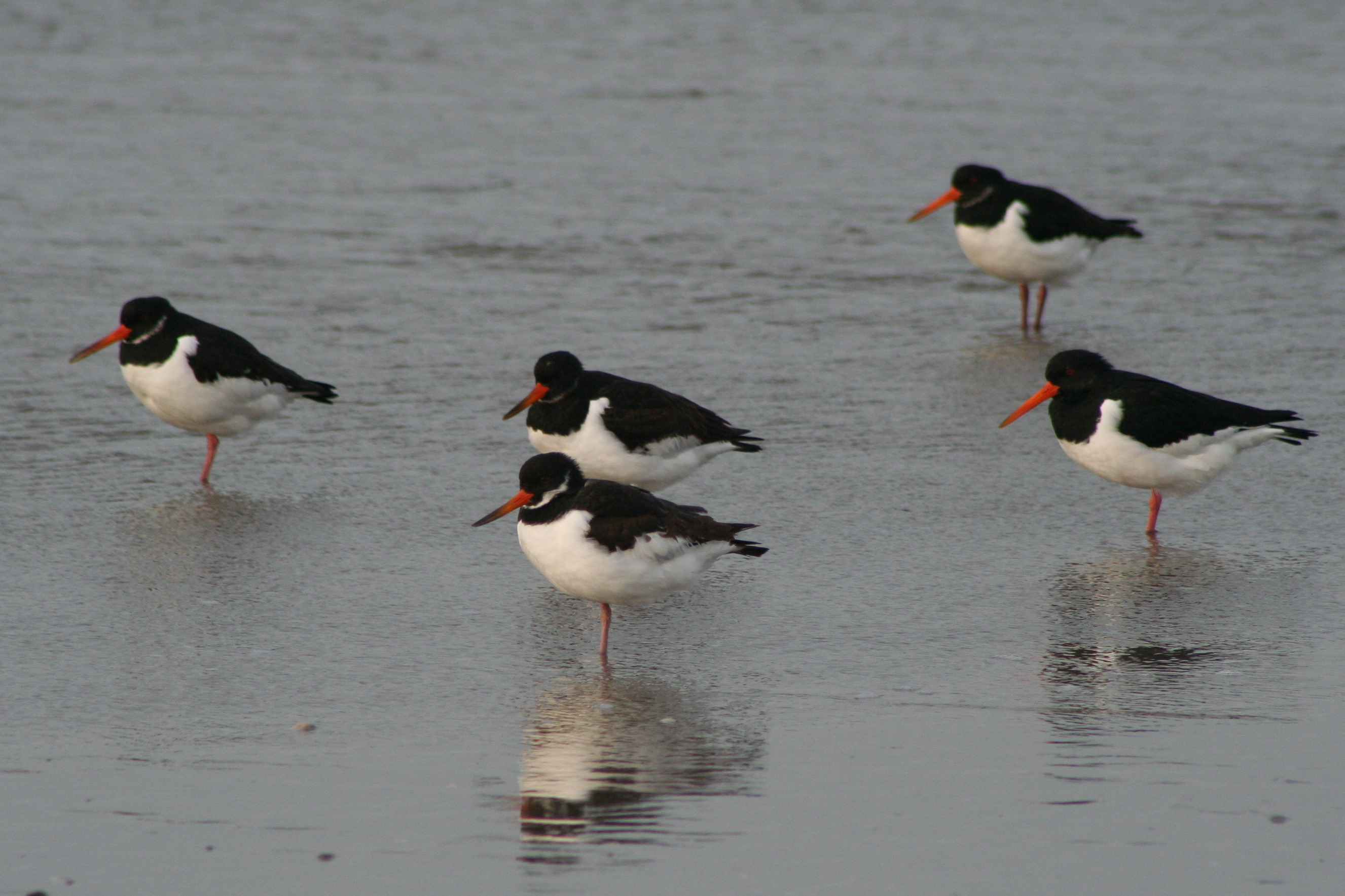 Haematopus ostralegus 29 december 2006 IJmuiden, the Netherlands